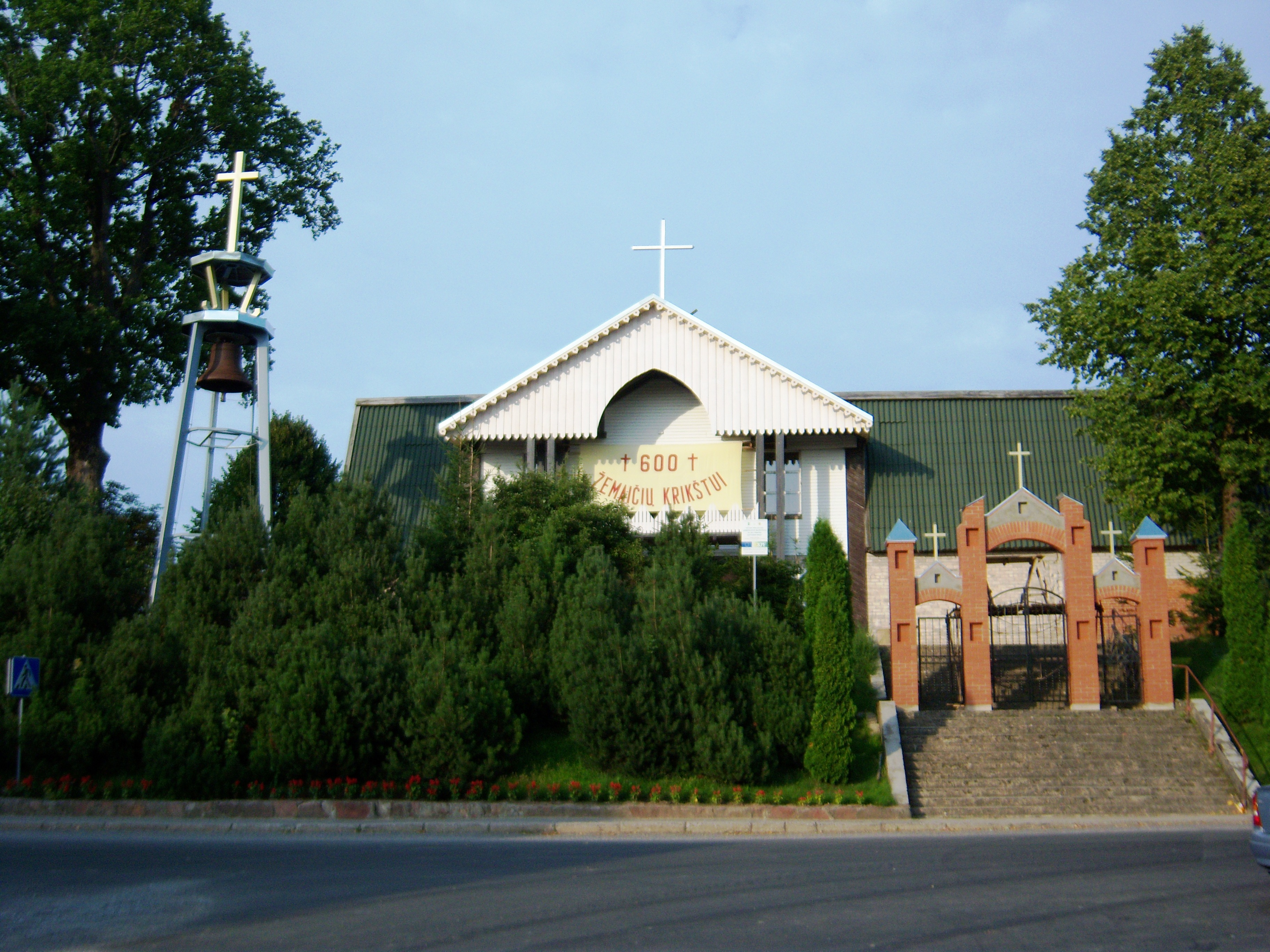 Endriejavas Catholic church, Klaipėda District. Lithuania